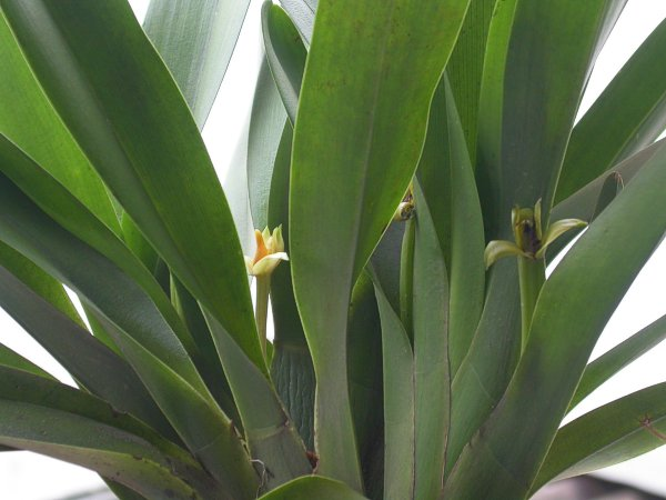 Heterotaxis crassifolia